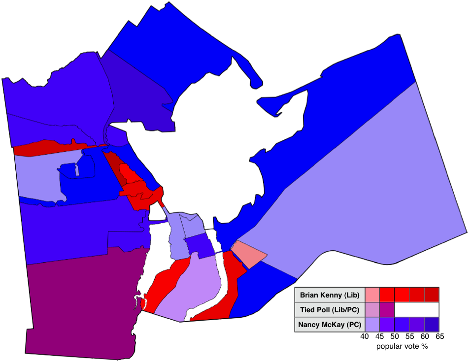 Winners of each poll in the Bathurst electoral district during the 2010 New Brunswick election.